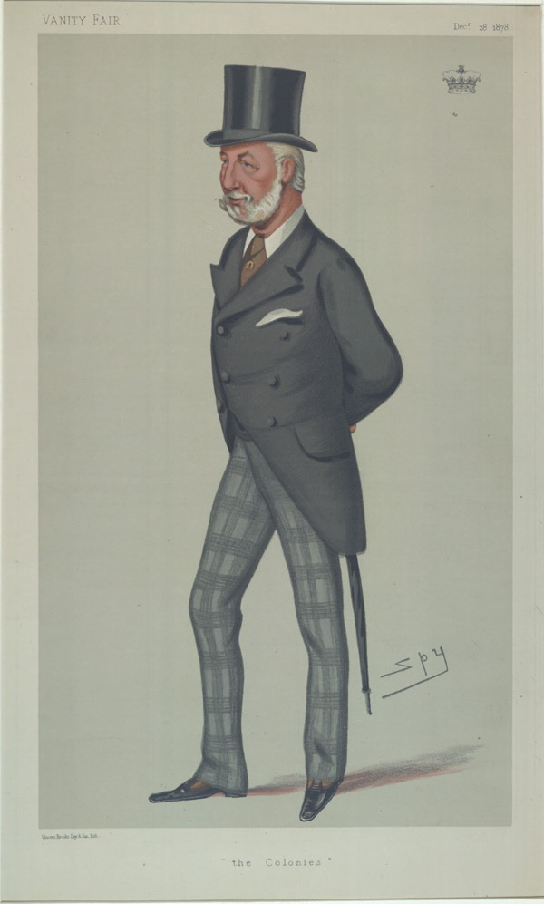 Statesmen No.291: Caricature of The Duke of Manchester KP. Caption reads: "the Colonies"